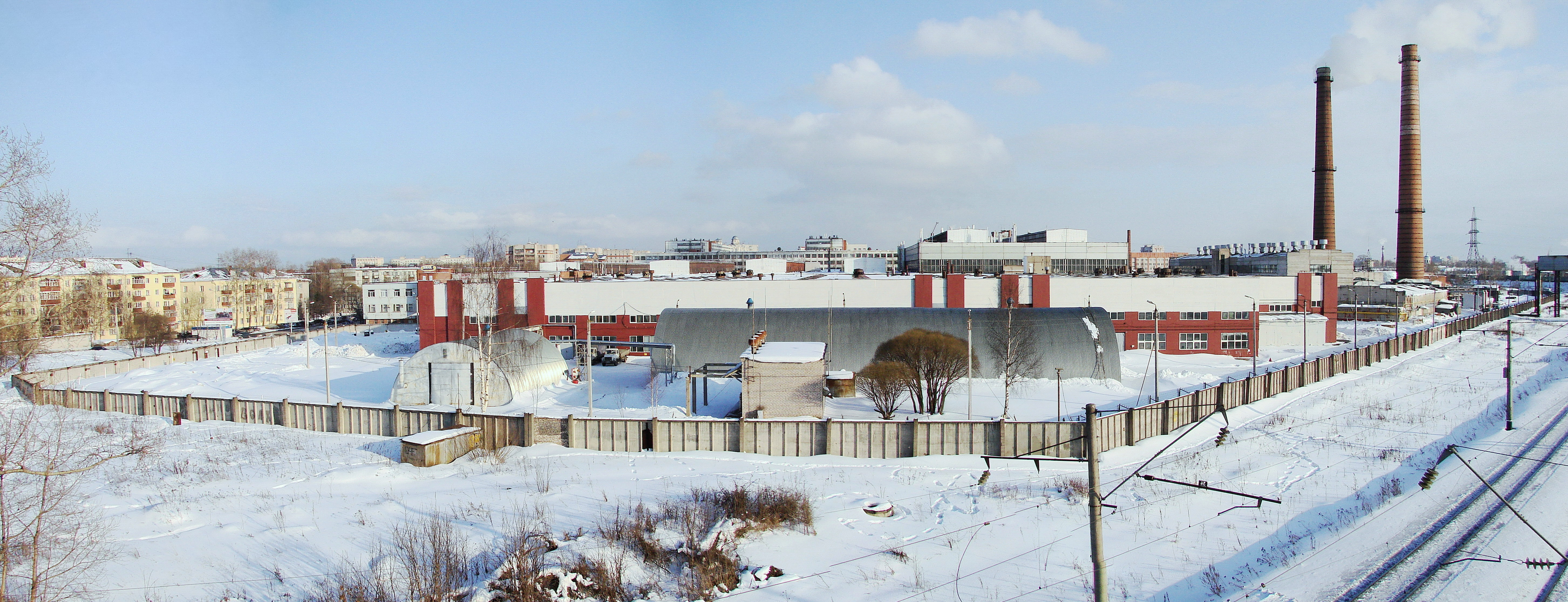 Russia, Vologda Optical and Mechanical Plant